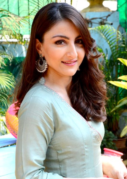 Soha Ali Khan at Jaypore store launch in Bandra.